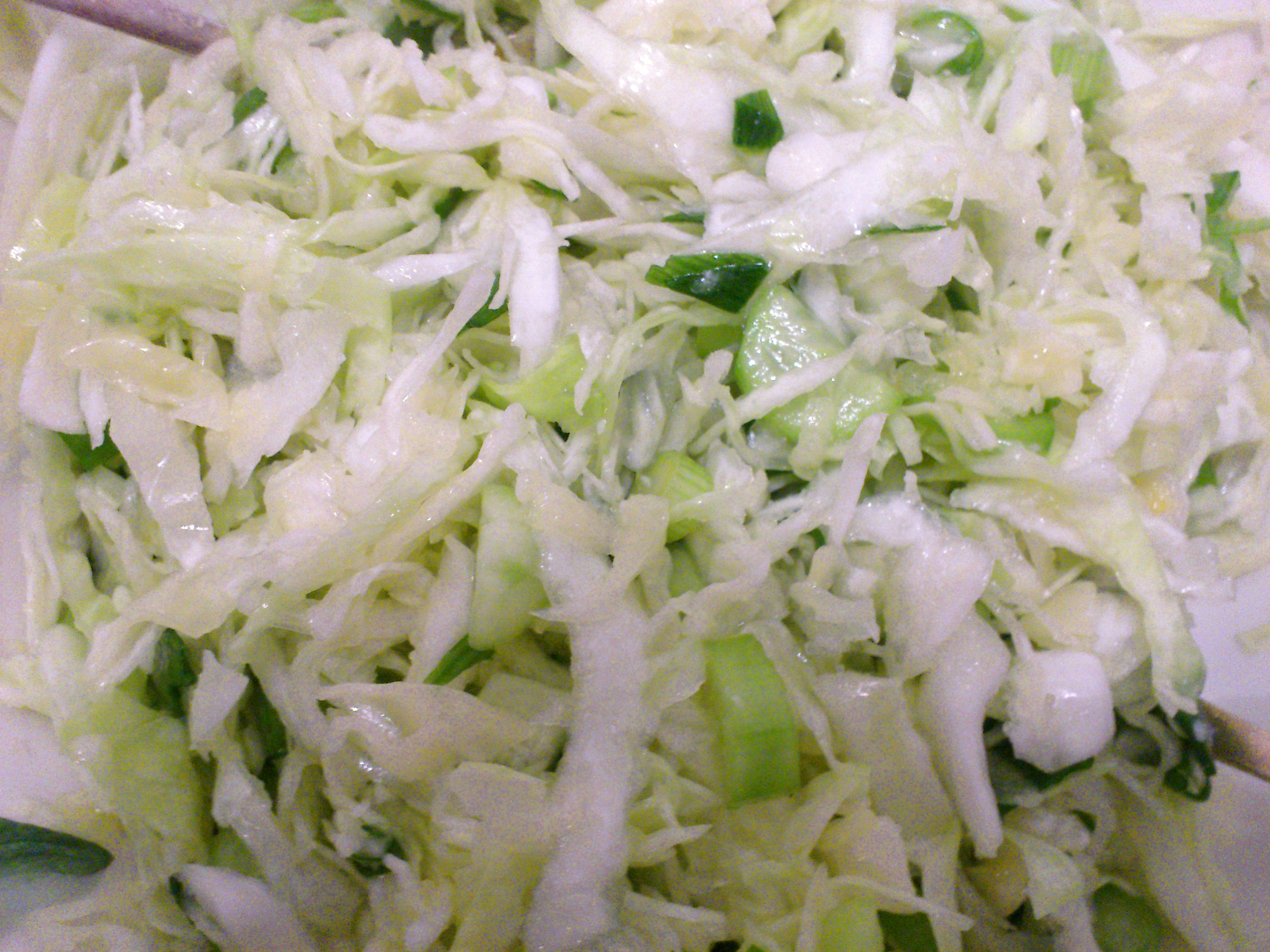 Cabbage salad with cucumbers and scallions dressed with unrefined sunflower oil. A typical Russian and Ukrainian salad.